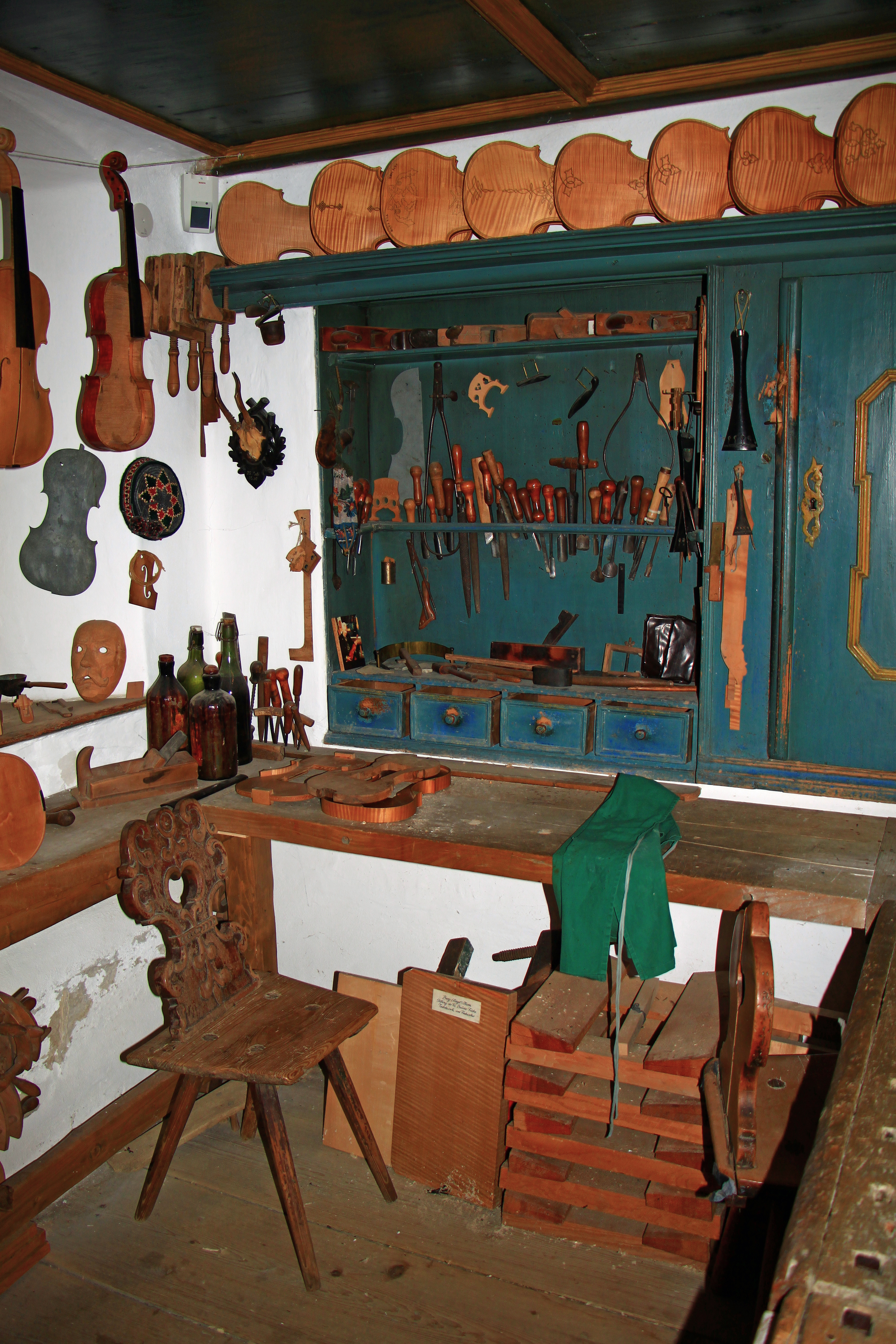 Workshop of a luthier, Geigenbaumuseum Mittenwald, Bavaria, Germany.